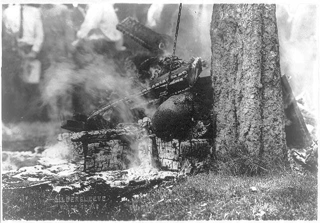 A picture of the body of Jesse Washington after he was lowered to the ground after burning to death.